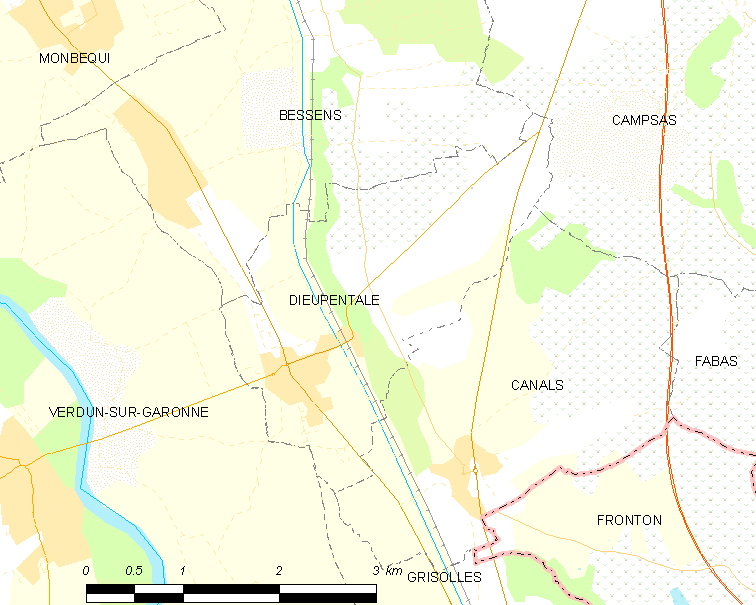 Map of French municipality Dieupentale